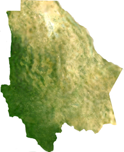 Enlarged image of satellite image of the state of Chihuahua